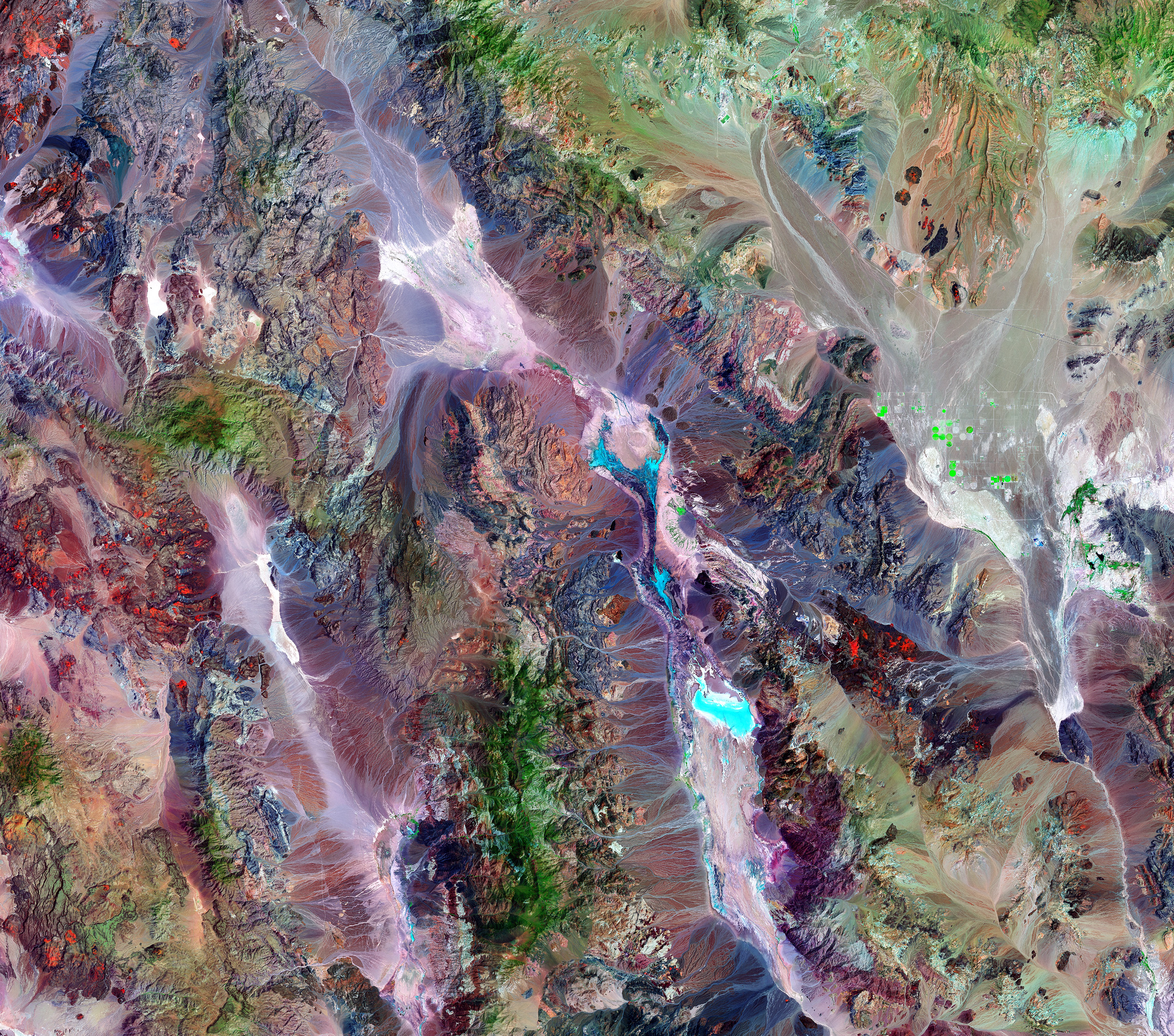 A thermal image compiled of two images taken by the Landsat 7 satellite of NASA. This image is of the Death Valley National Park's vegetation. As seen in the picture represented by the green coloring, the amount of vegetation increases as the altitude rises. Key- Green = Forest/Vegetation Rust/beige/brown = Bare ground Light blue = Salt pans with a little moisture Bright green = probably irrigation